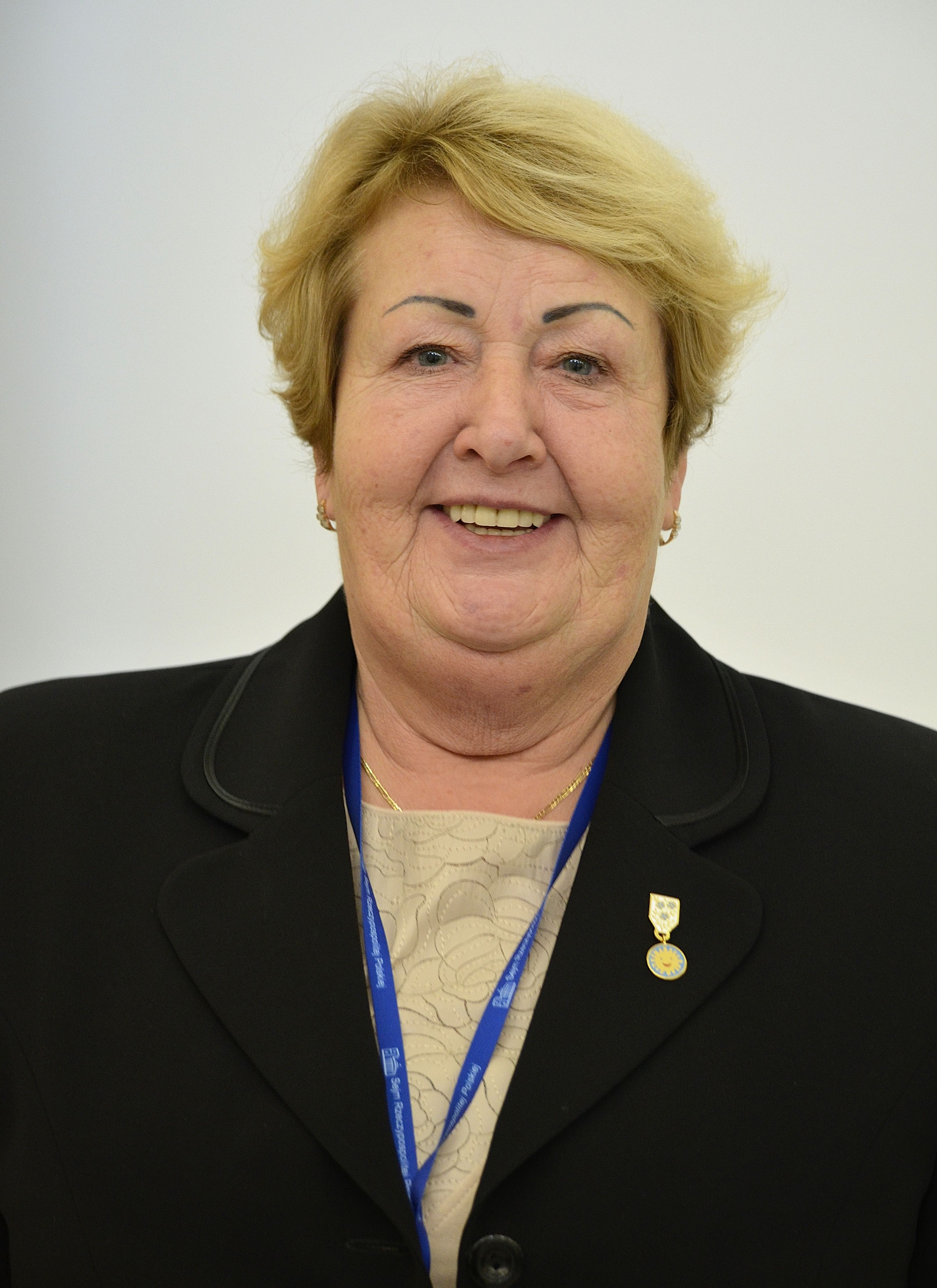 Polish MP Henryka Krzywonos w Sejmie